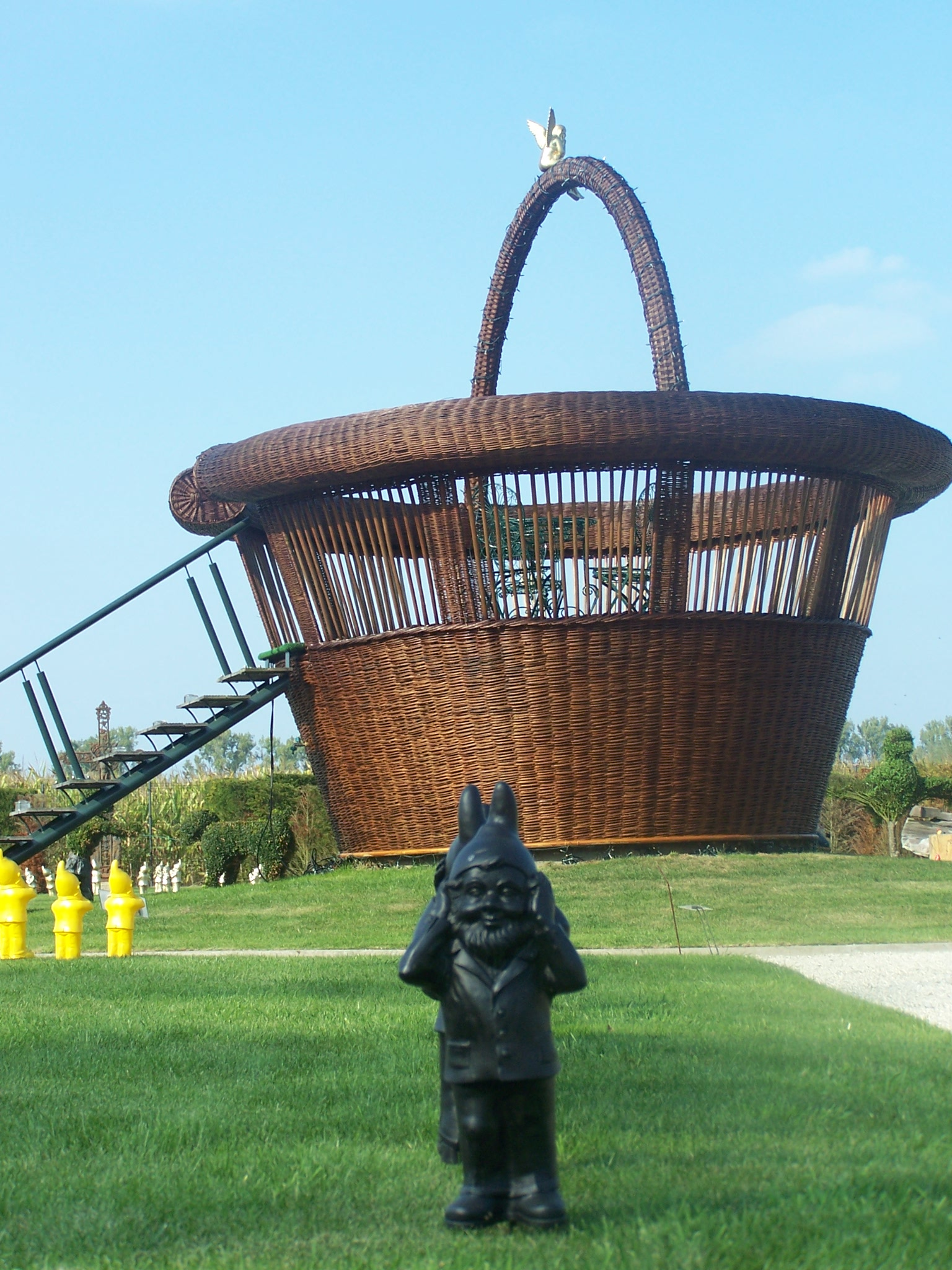 Park Natuur & Cultuur in Hasselt.